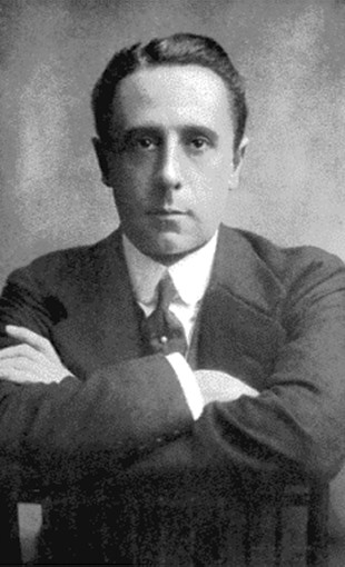 English hotelier, theatre owner and impresario Rupert D'Oyly Carte (1876–1948)